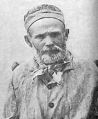 Anarchist Giovanni Passannante in 1896. Photography by Vincenzo Viviani (1862-1944)